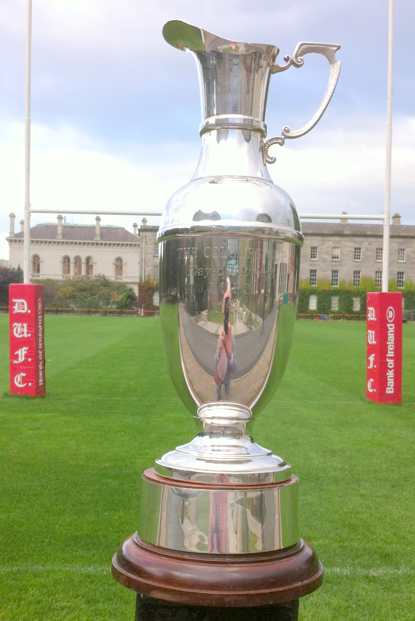 The Colours Cup was inaugurated in 2002 to mark the Golden Jubilee of the first Colours Match in December 1952. It is presented annually to the winner of the Colours Match between Dublin University Football Club and University College Dublin Football Club. The cup is in the form of a claret jug. It weighs 465 gm, is 28 cm in height, and 9 cm wide at its widest point. It is a plated cup. The inscription on the cup reads: The Colours Cup Played between D.U.F.C and U.C.D. R.F.C. The base is inscribed with the winners since the 51st Colours Match in 2002.